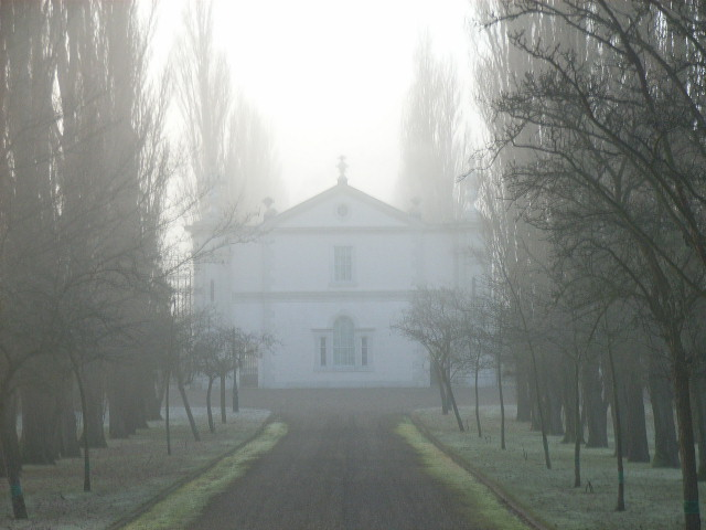 The entrance to Foliejon Park. Taken from the Drift Road. The avenue of poplars continues southwards for about a kilometre.